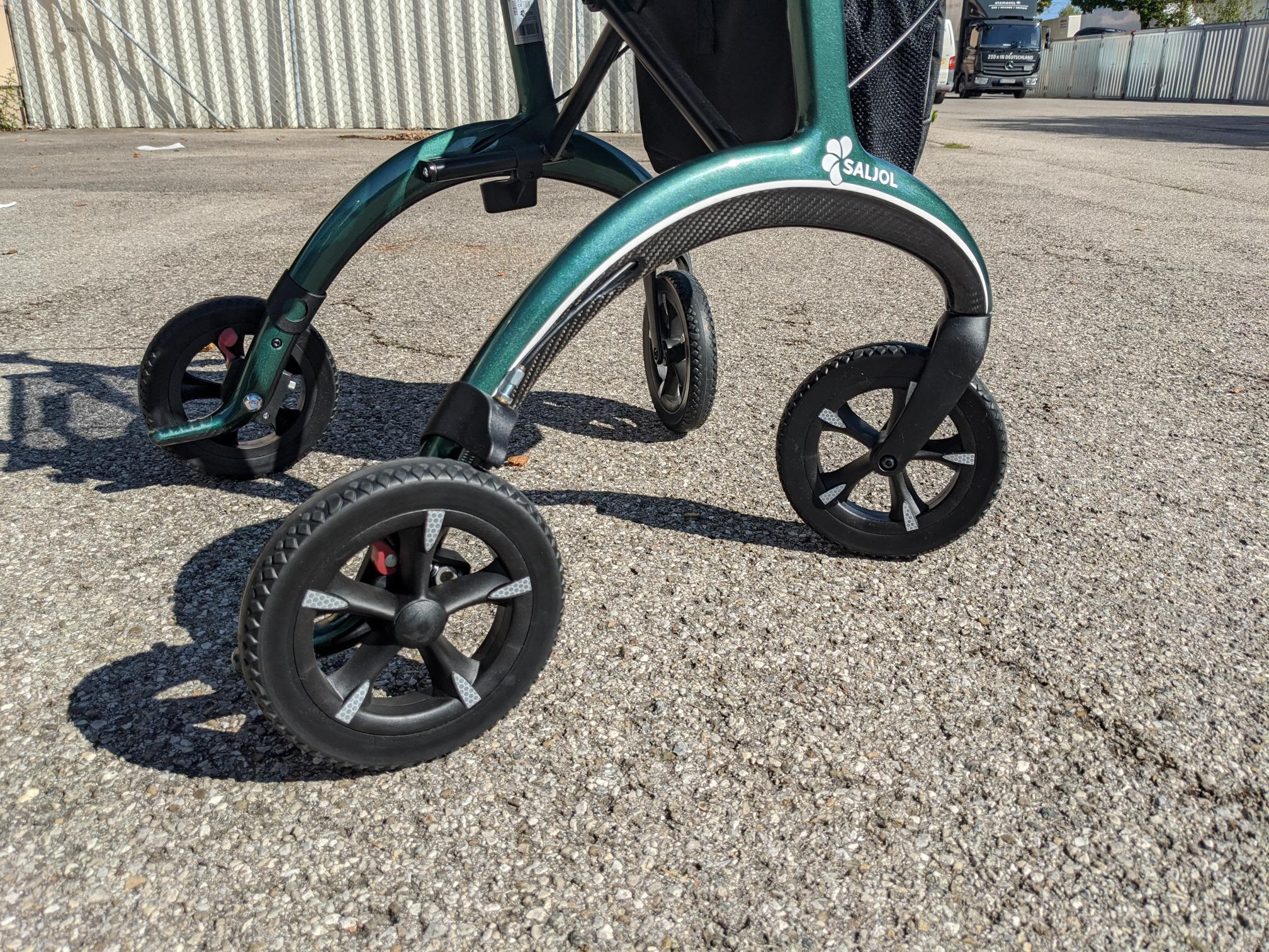 Reflectors on the tires of a rollator for more visibility